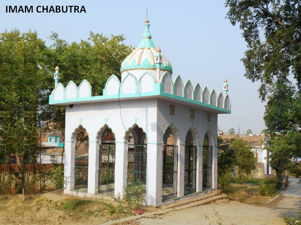 Imam Chabutrah at Karbala Musahab-ud-Daulah, Misri ki Baghiya.